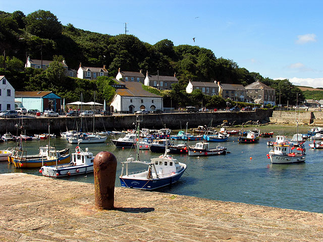 Porthleven Harbour. Looking at the section of the harbour behind the entrance and towards the road coming into Porthleven.